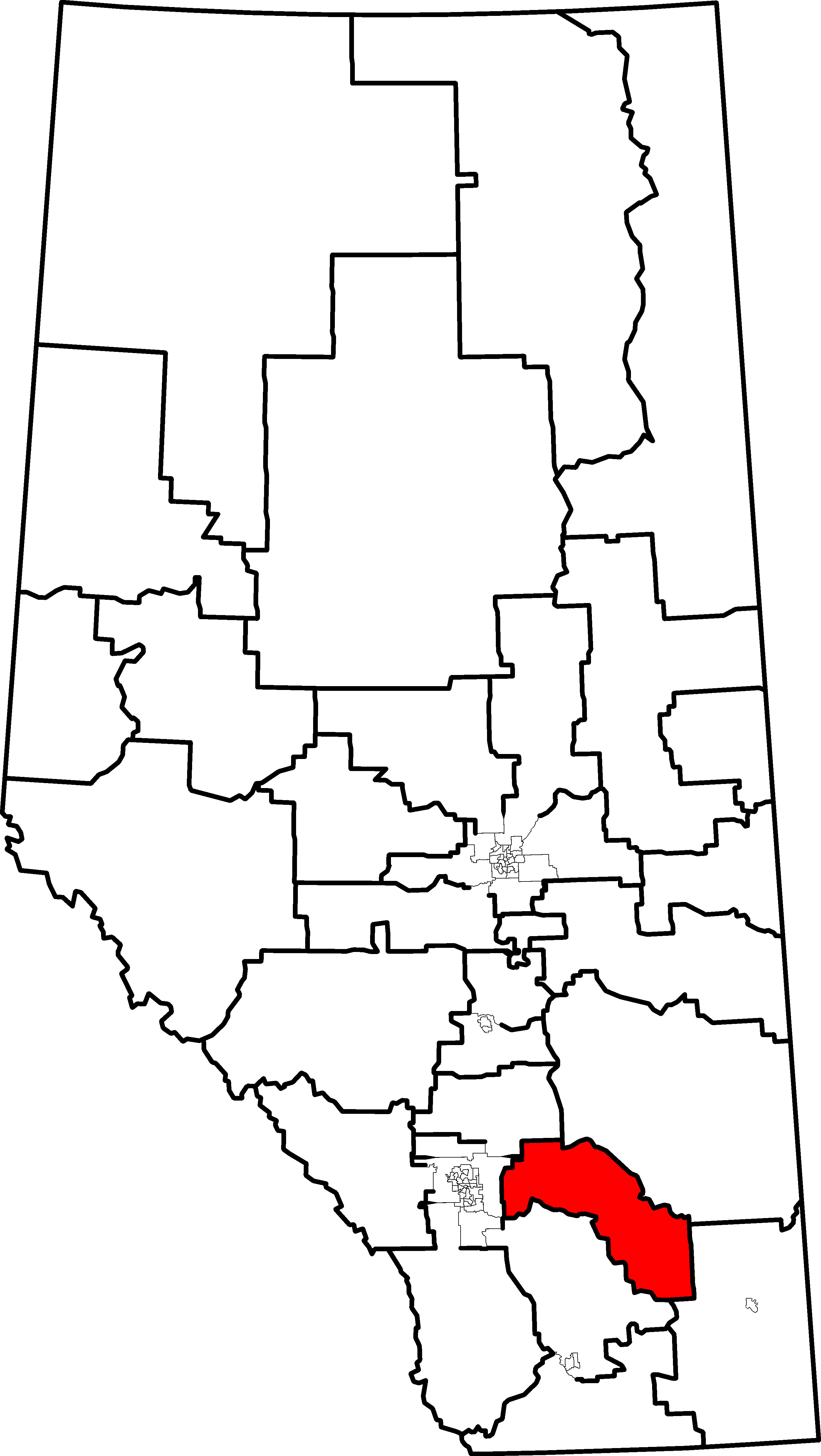 A map of the Alberta provincial electoral districts, effective 2010. Strathmore-Brooks is highlighted in red.